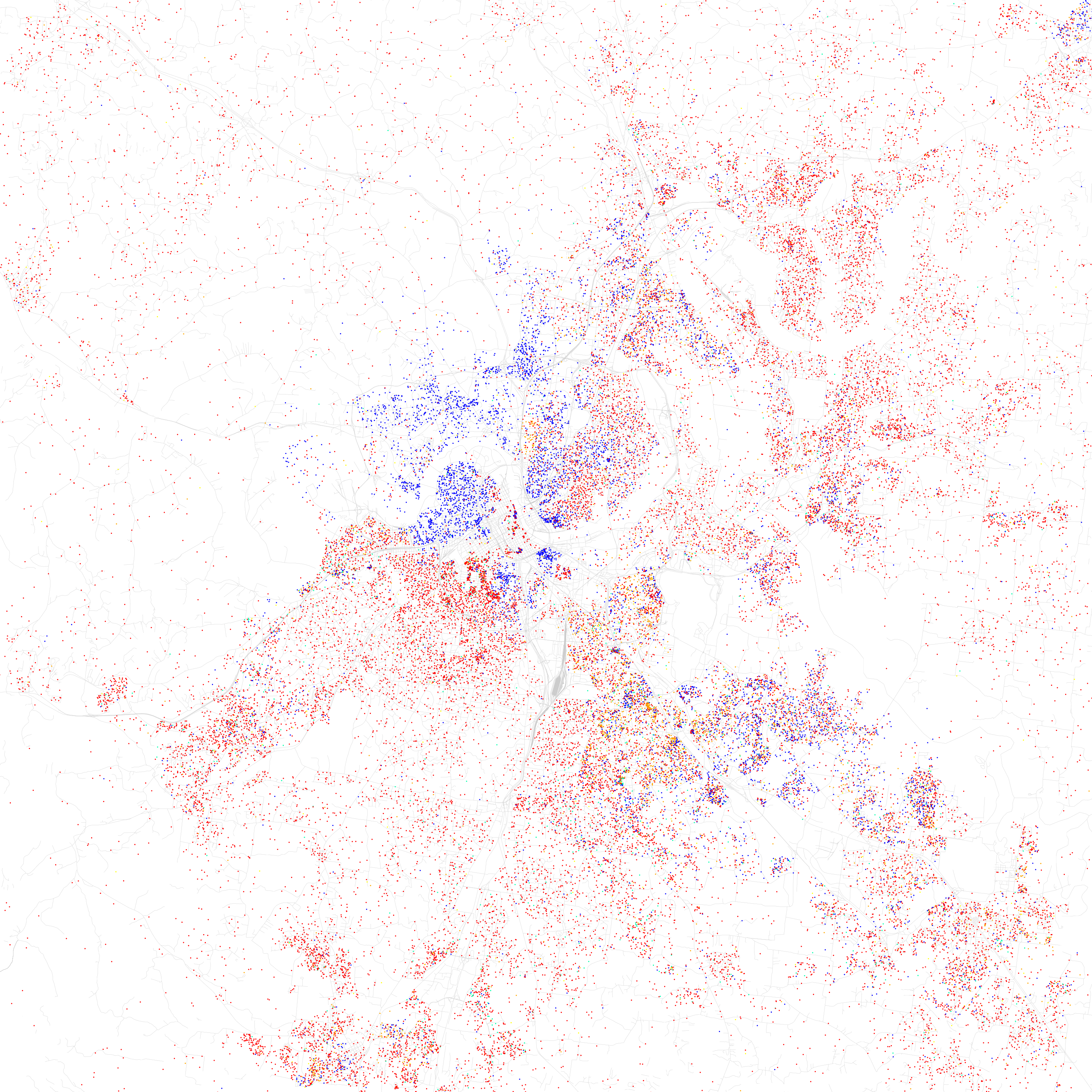 Maps of racial and ethnic divisions in US cities, inspired by Bill Rankin's map of Chicago, updated for Census 2010. Red is White, Blue is Black, Green is Asian, Orange is Hispanic, Yellow is Other, and each dot is 25 residents. Data from Census 2010. Base map © OpenStreetMap, CC-BY-SA